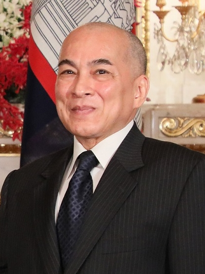 On October 22, 2019, Prime Minister Shinzo Abe held bilateral meetings and other events at the Akasaka Palace State Guest House. Prime Minister Abe held meetings with His Majesty King Philippe, King of the Belgians, His Majesty Al-Sultan Abdullah Ri’ayatuddin Al-Mustafa Billah Shah Ibni Sultan Haji Ahmad Shah Al-Musta’in Billah, The Yang di-Pertuan Agong XVI of Malaysia, H.M. Preah Bat Samdech Preah Boromneath Norodom Sihamoni, King of Cambodia, and His Majesty Jigme Khesar Namgyel Wangchuck, King of the Kingdom of Bhutan, respectively.